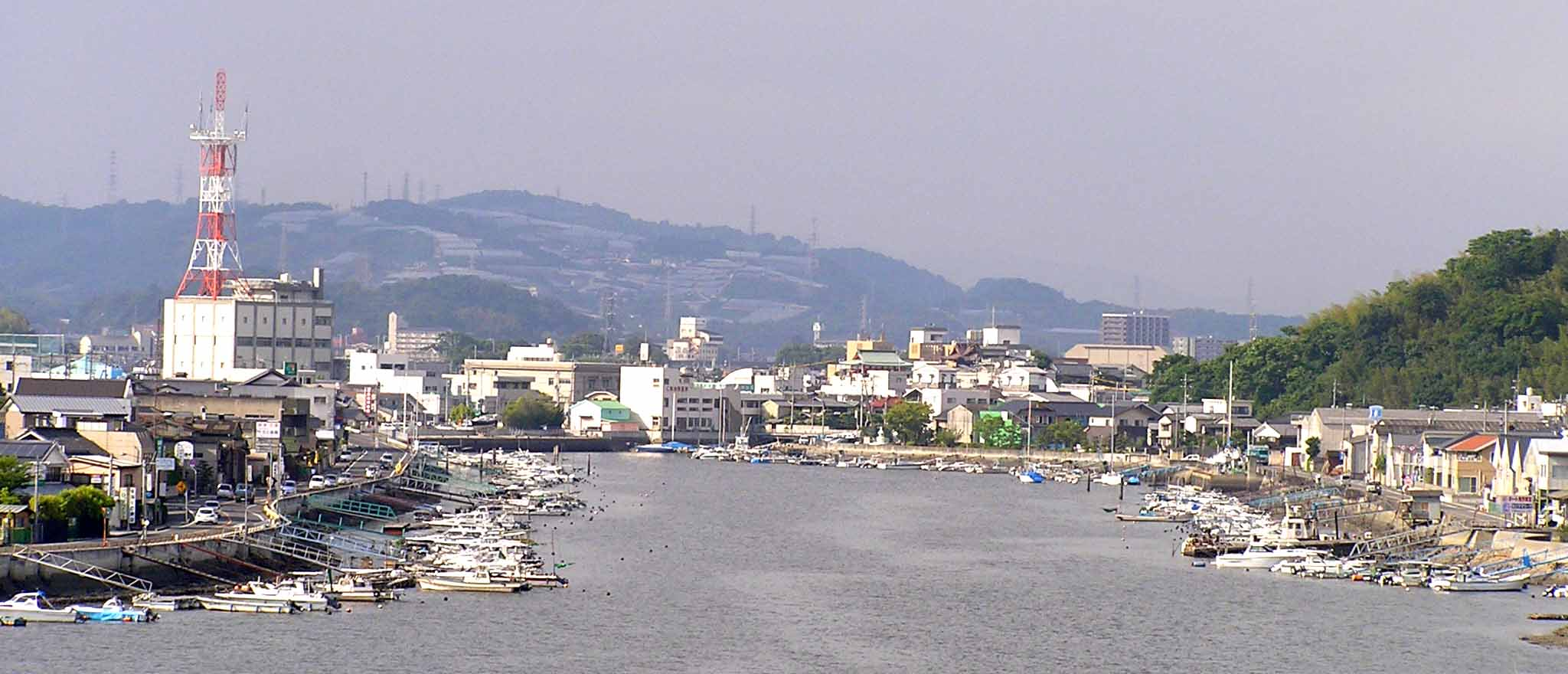 The town seen from Tamashima Ohashi